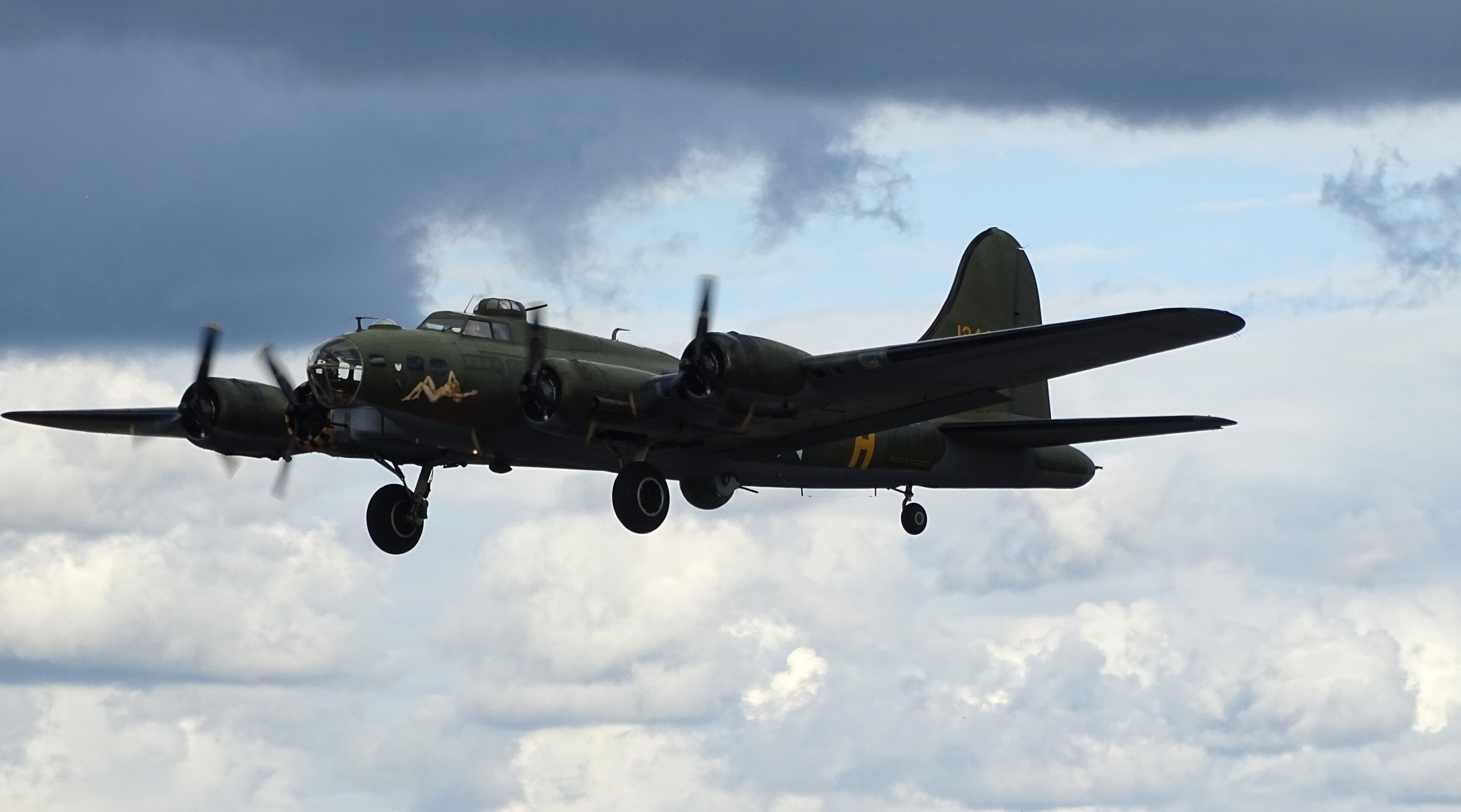 Boeing B17G Flying Fortress G-BEDF Sally B (c/n 8693; s/n 44-85784) at Antwerp International Airport during the Antwerp Liberation Festivities 2019.